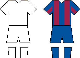 Real Madrid CF vs FC Barcelona